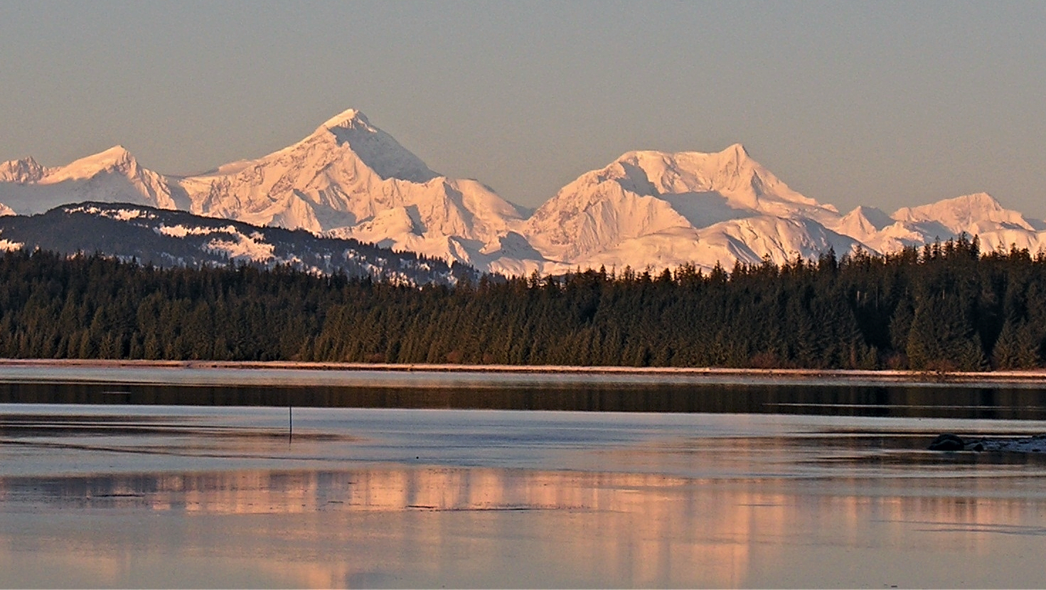 Nice winter sunrise view of the Fairweather Range as seen from Park HQ. Mts Crillon and Bertha centered.